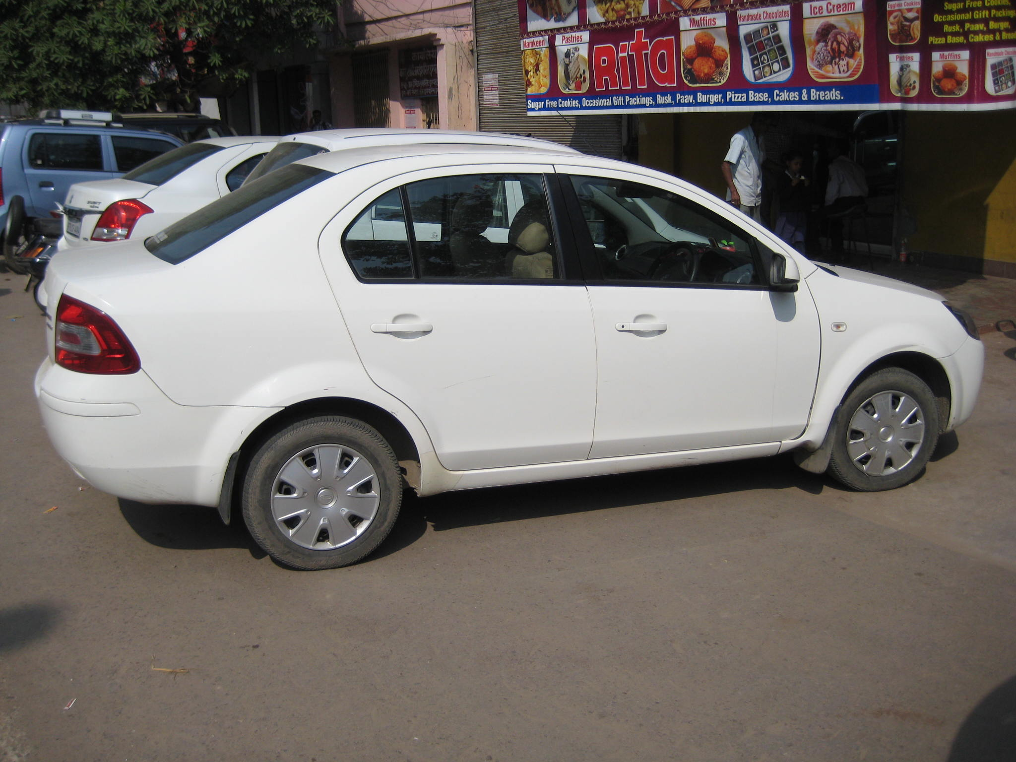 Ford Fiesta Sedan in India